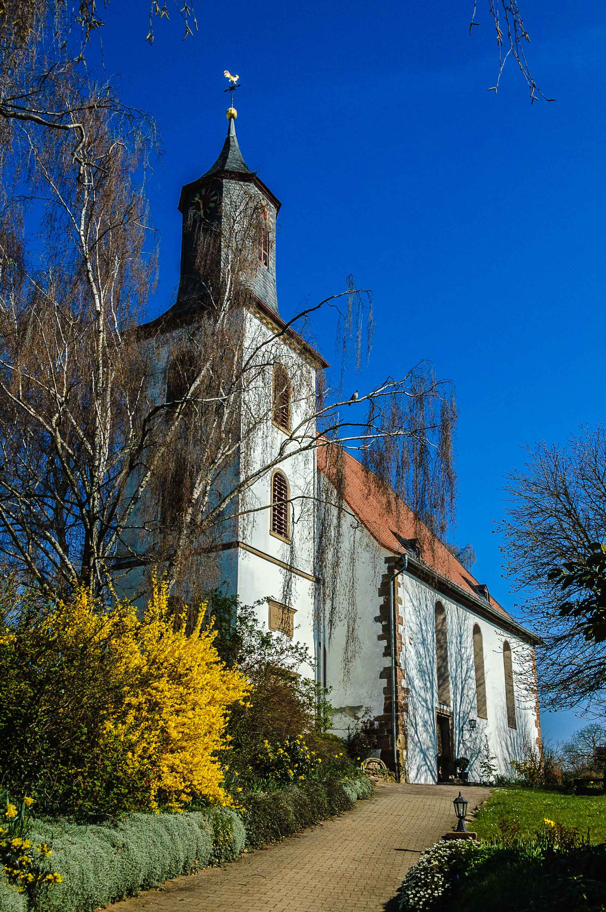 evangelische Kirche Dreisen a